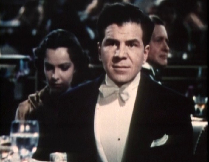 Cropped screenshot of Lionel Stander from the film A Star is Born.